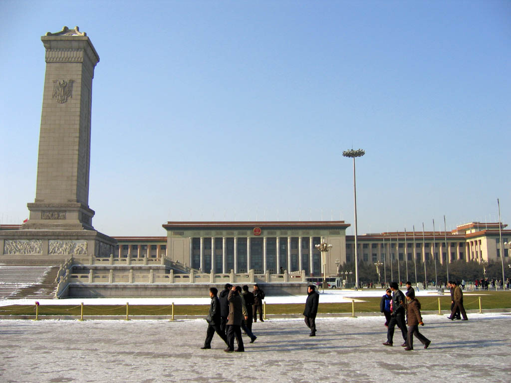 The Great Hall of the People, where the National People's Congress convenes. The Great Hall of the People, where the NPC convenes. The composition of the Chinese National People's Congress (seated at the Great Hall of the People, shown here) is controlled by the ruling Chinese Communist Party. Monument to the People's Heroes and the Great Hall of the People.